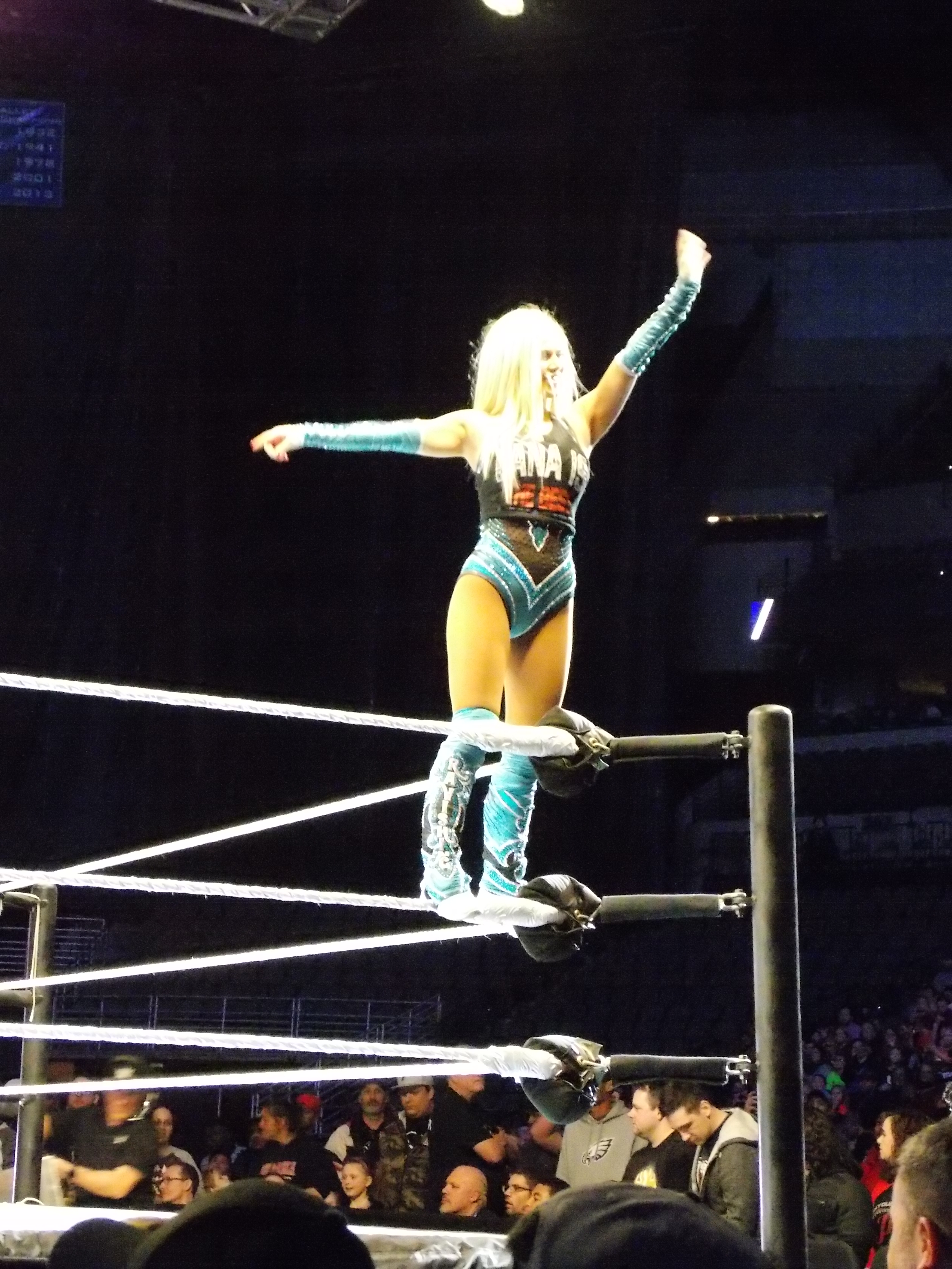 Lana at a WWE Live Event House Show in Omaha, Nebraska, USA on Sunday, January 20, 2019